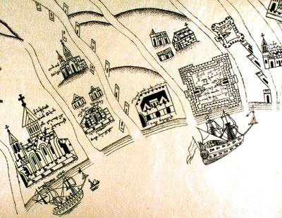 Detail from a map of coastal Georgia, by Timote Gabashvili, 1737